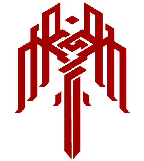 Coat of arms of Kirkwall from Dragon Age II.